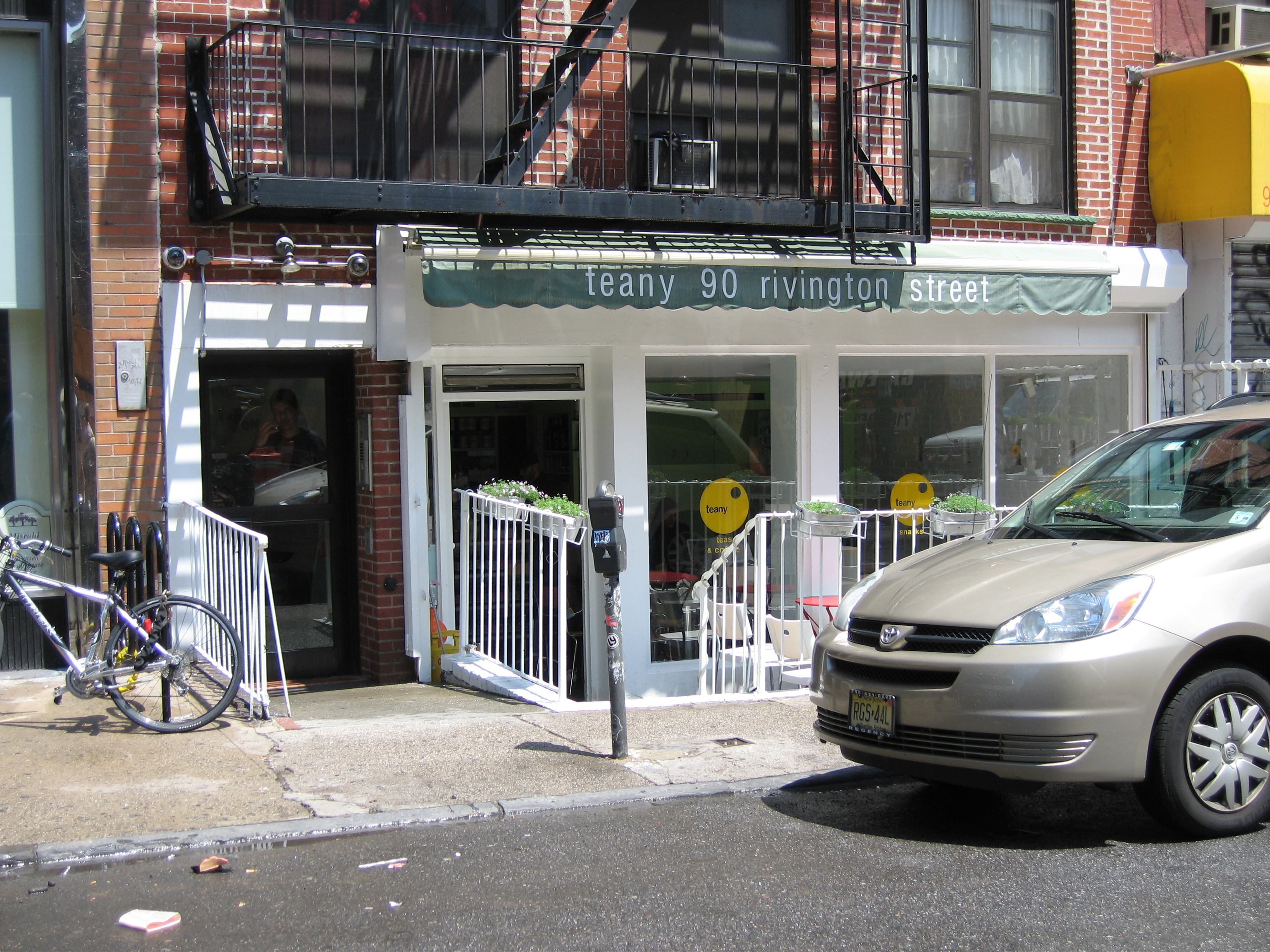 TeaNY is a tea café, restaurant and beverage distributor located at 90 Rivington Street, New York City which was founded by electronic musician Moby and his ex-girlfriend Kelly Tisdale